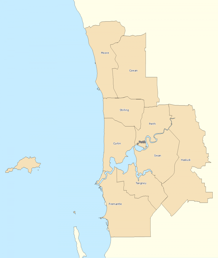 This image incorporates data that is: © Commonwealth of Australia (Australian Electoral Commission) 2009 Perth divisions overview 2010